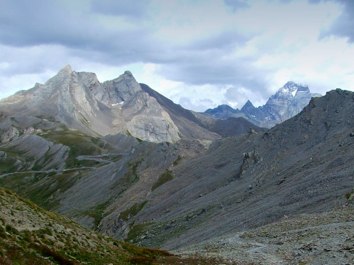 Colle d'Agnello picture taken by user Idéfix August 2006